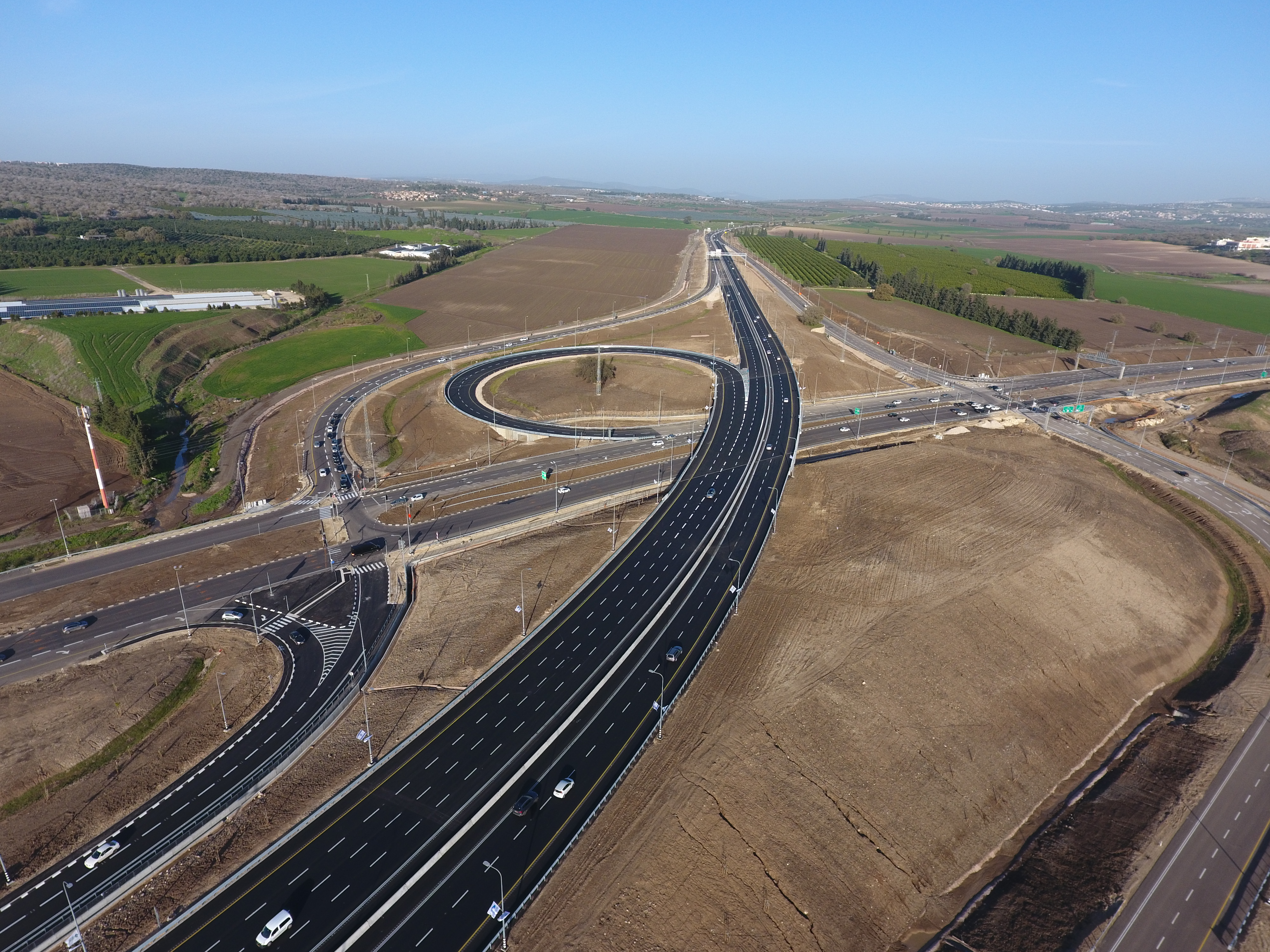 Yishai interchange